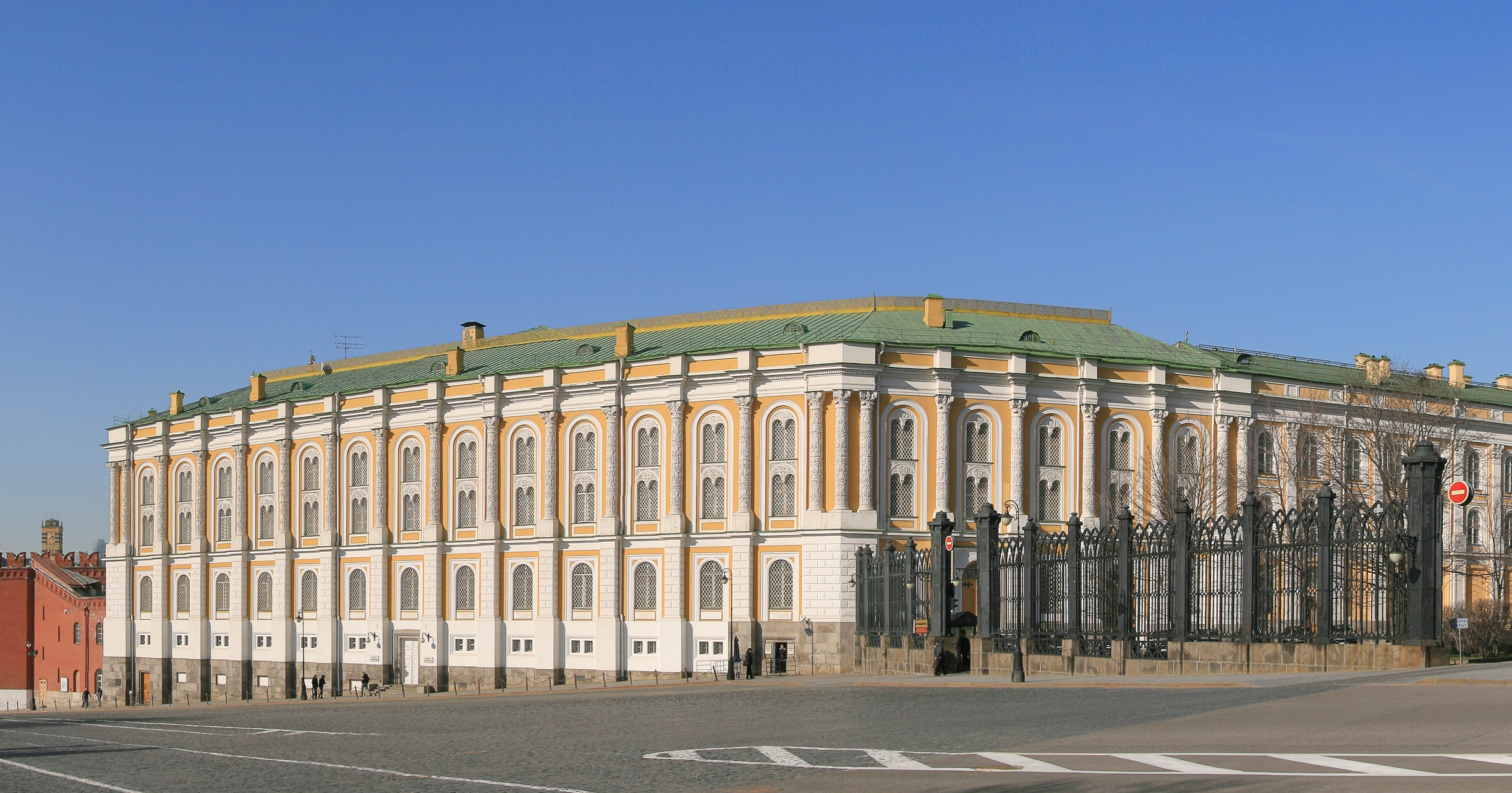 Kremlin Armoury, Moscow